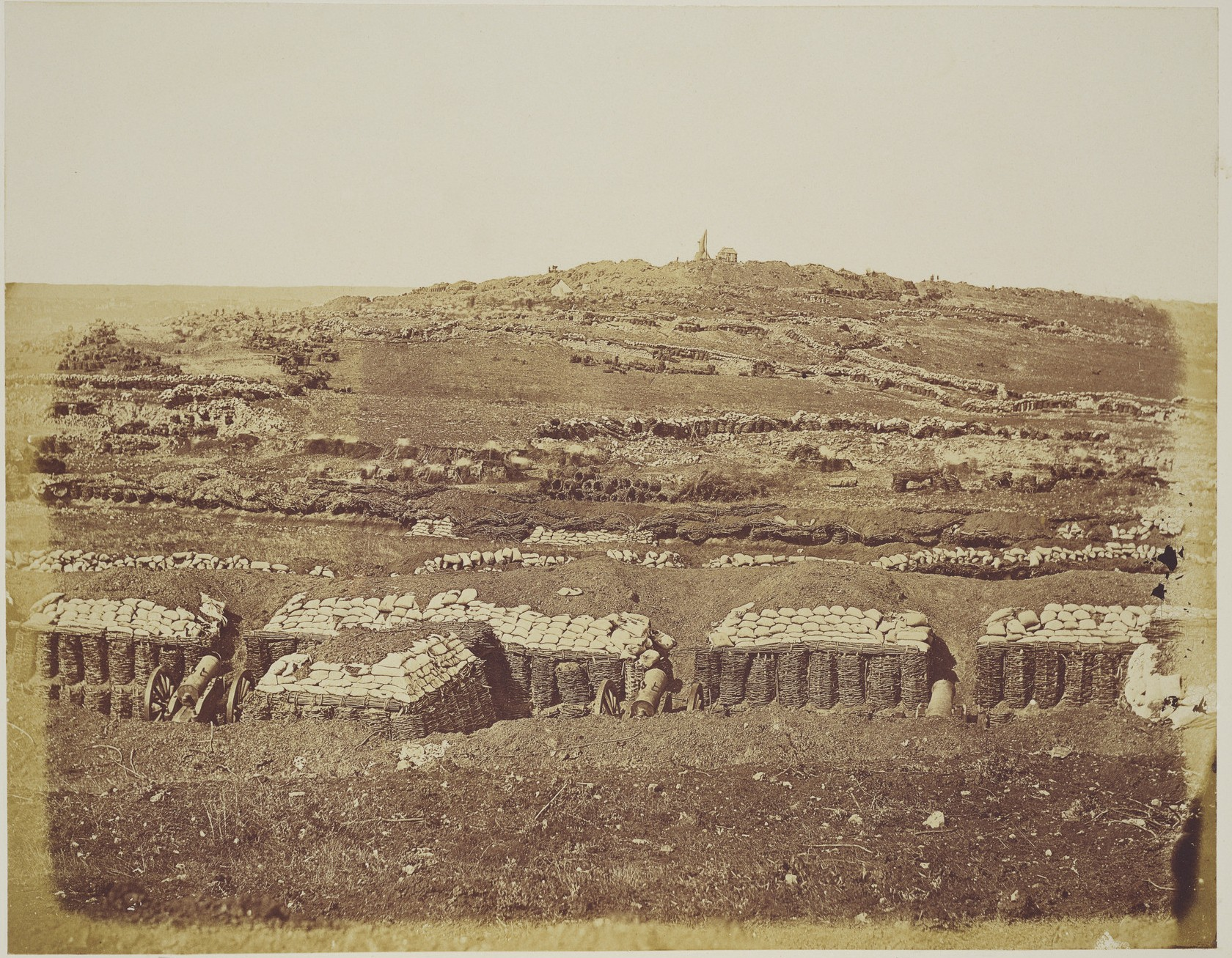 The Malakoff from the Mamelon vert